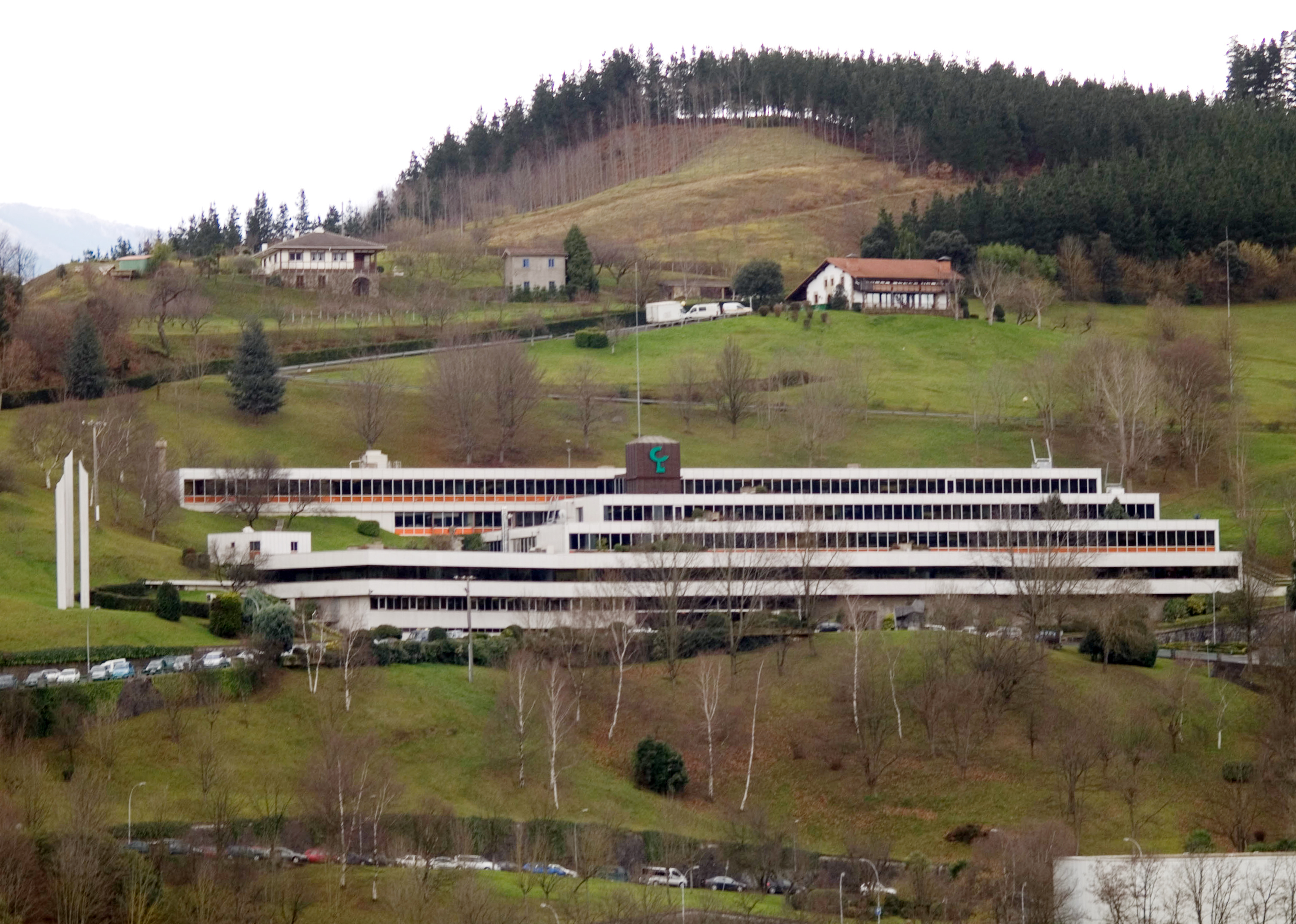 Central offices of Caja Laboral in Mondragón. Usted puede contribuir traduciendo ésta descripción en otros idiomas.